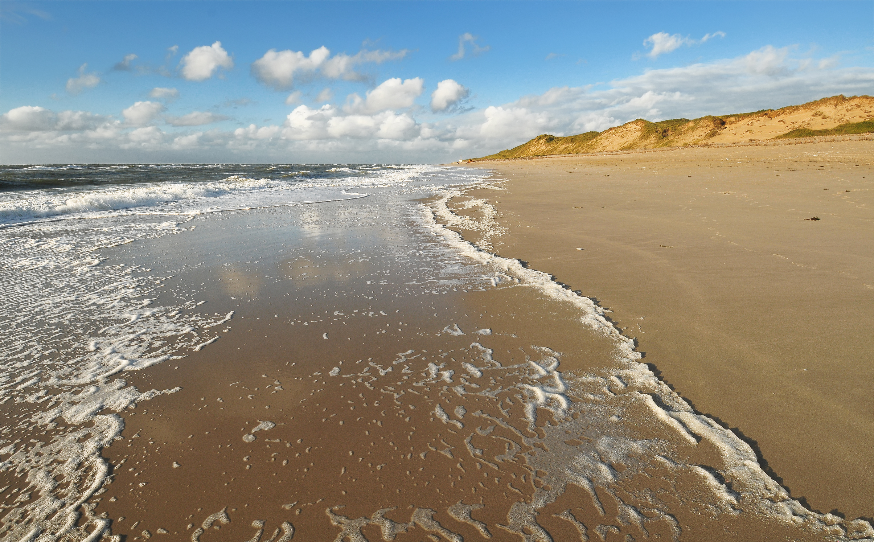 The west coast of Ellenbogen, Sylt, Germany